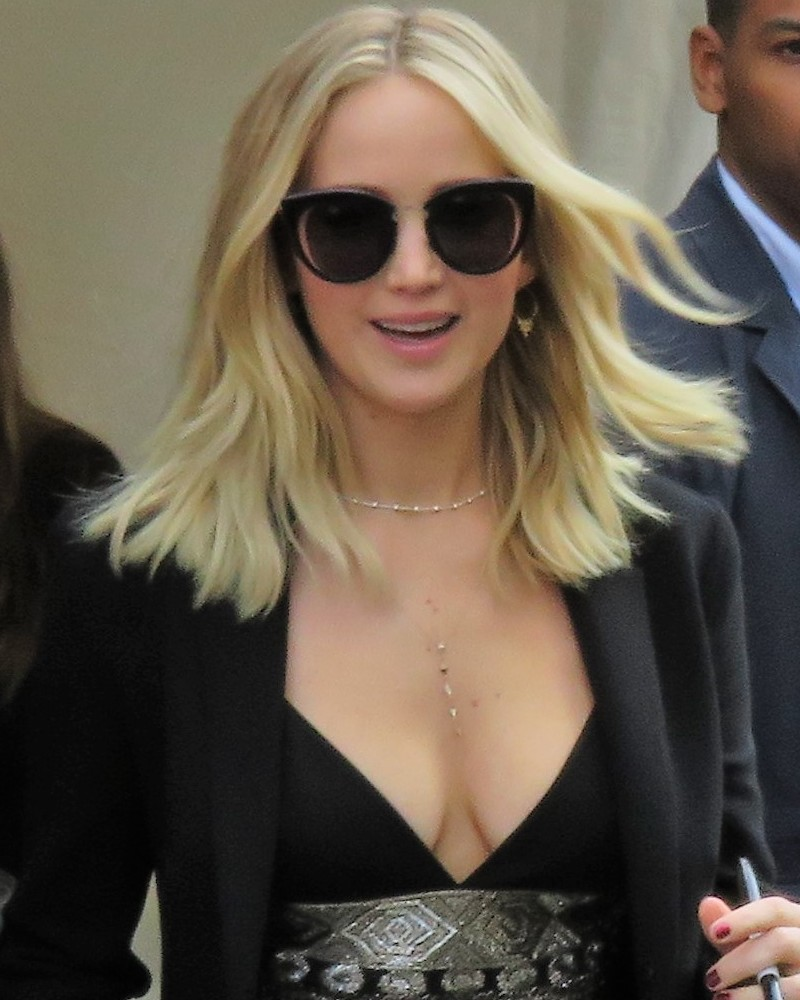 Jennifer Lawrence at the press conference of Mother!, 2017 Toronto Film Festival